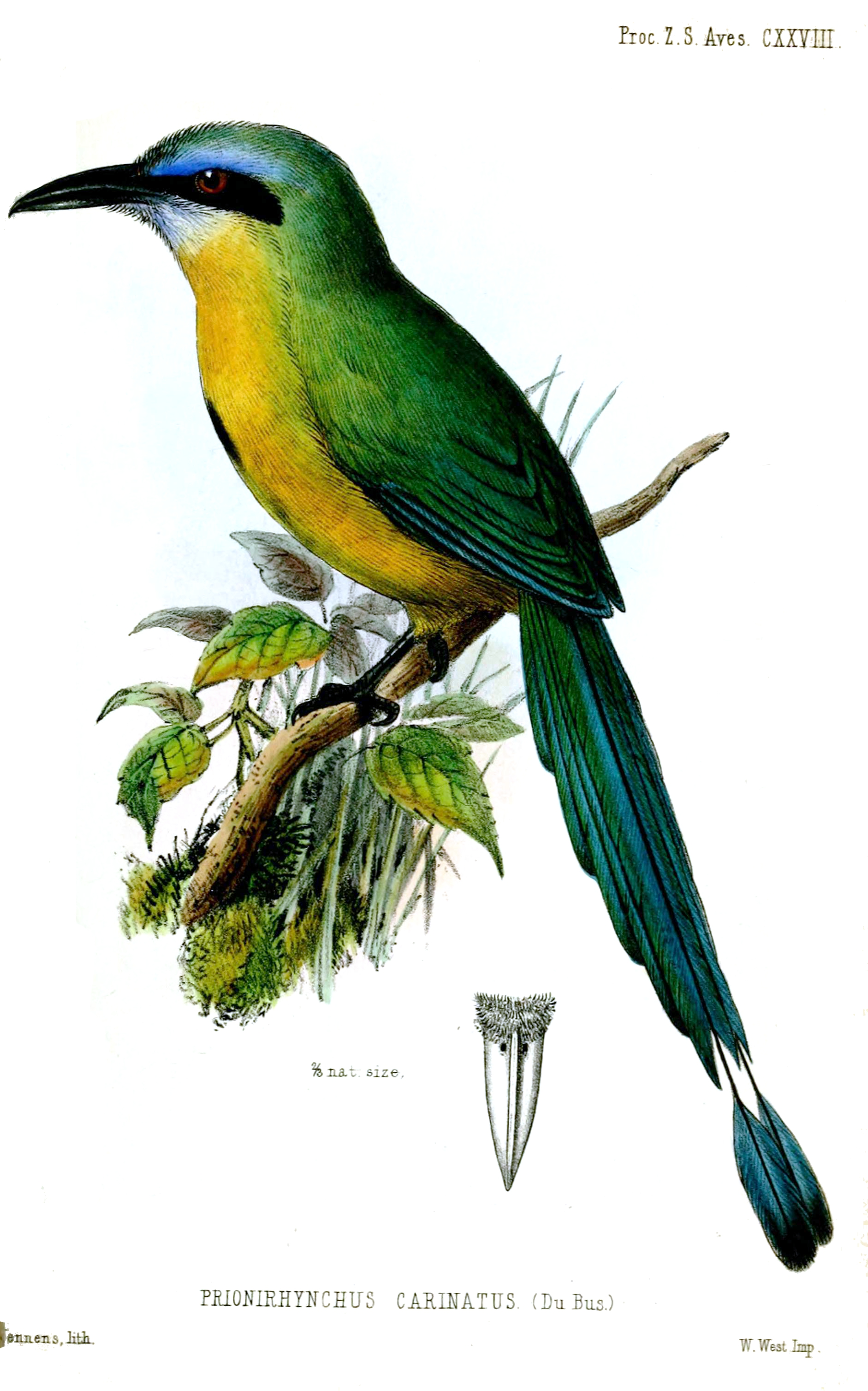 Prionirhynchus carinatus